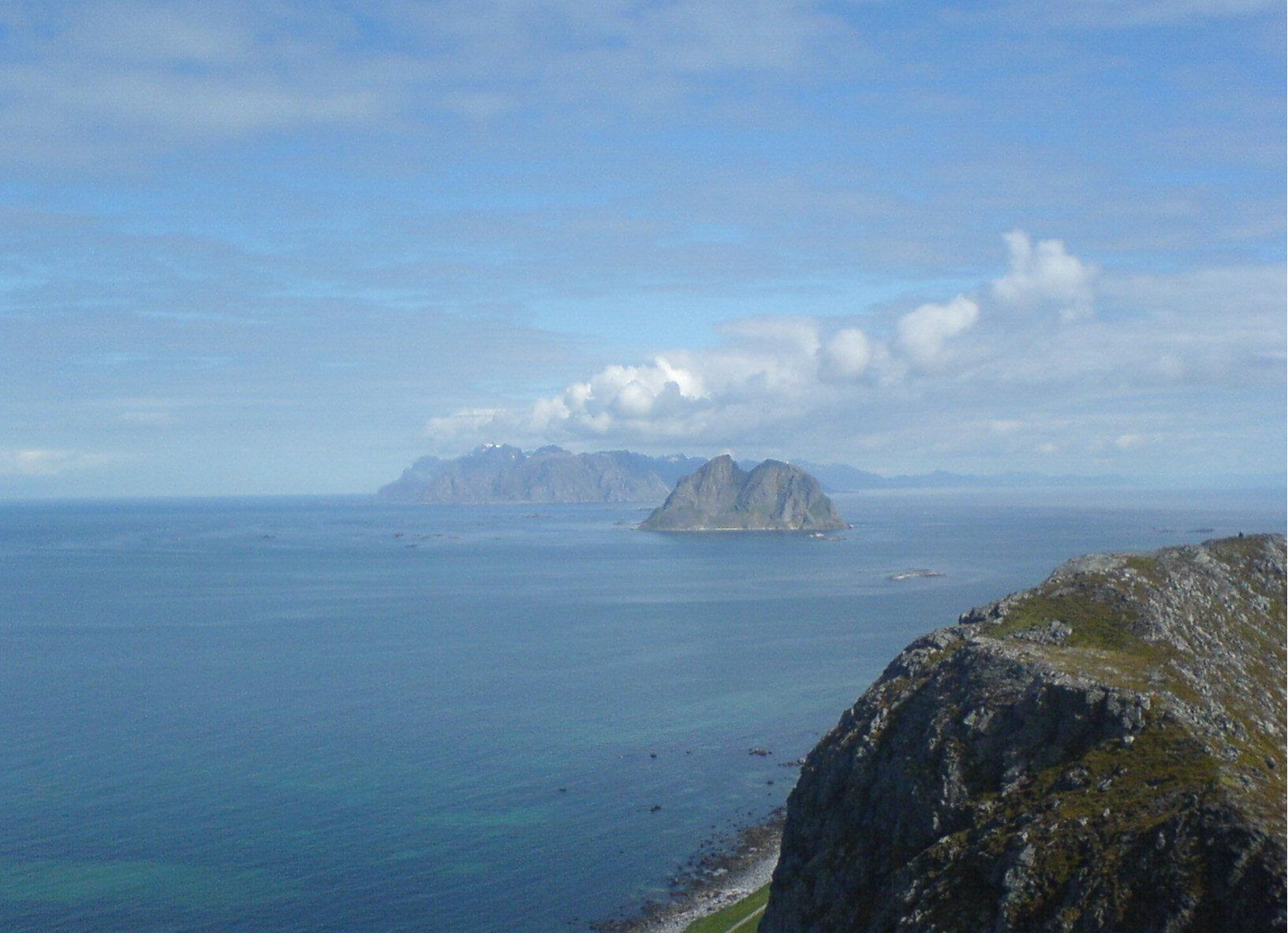 Picture of the island Mosken in Lofoten